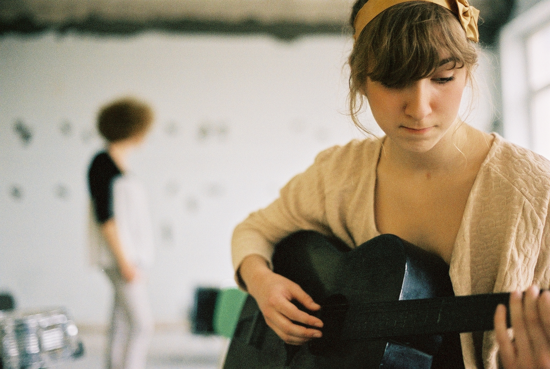 Those Dancing Days